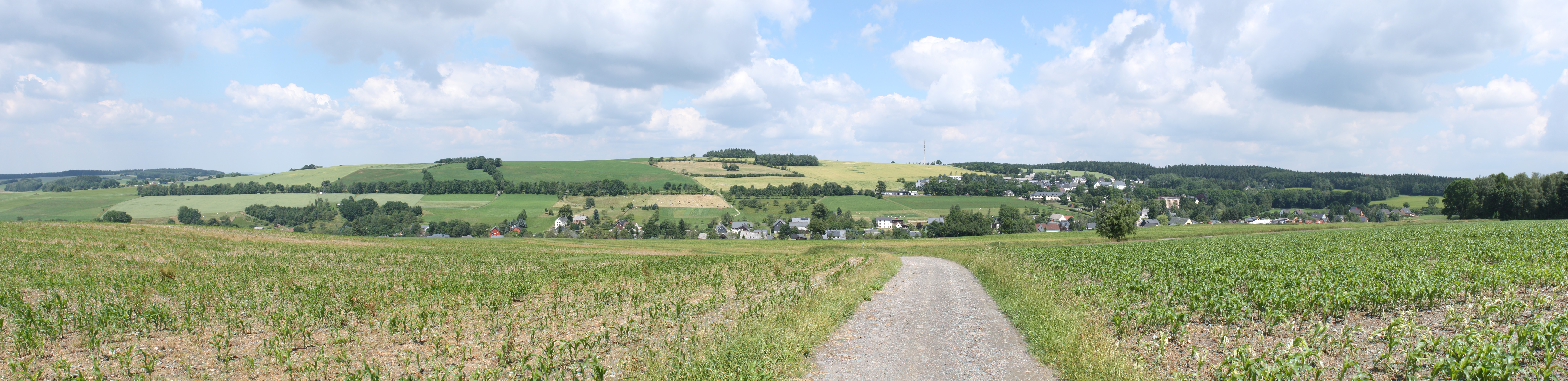 Affalter, Saxony, Germany